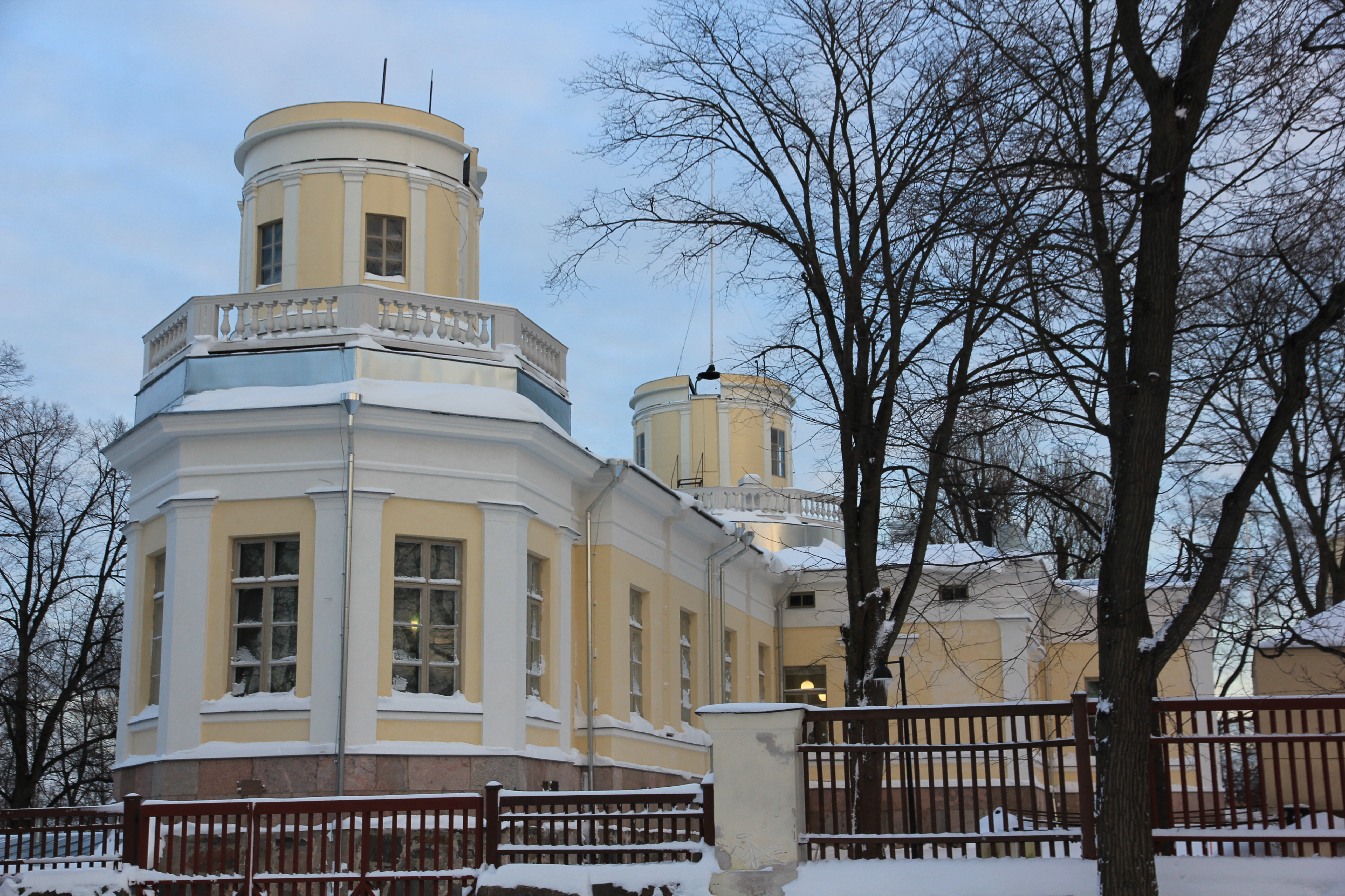 Helsinki observatory from west.